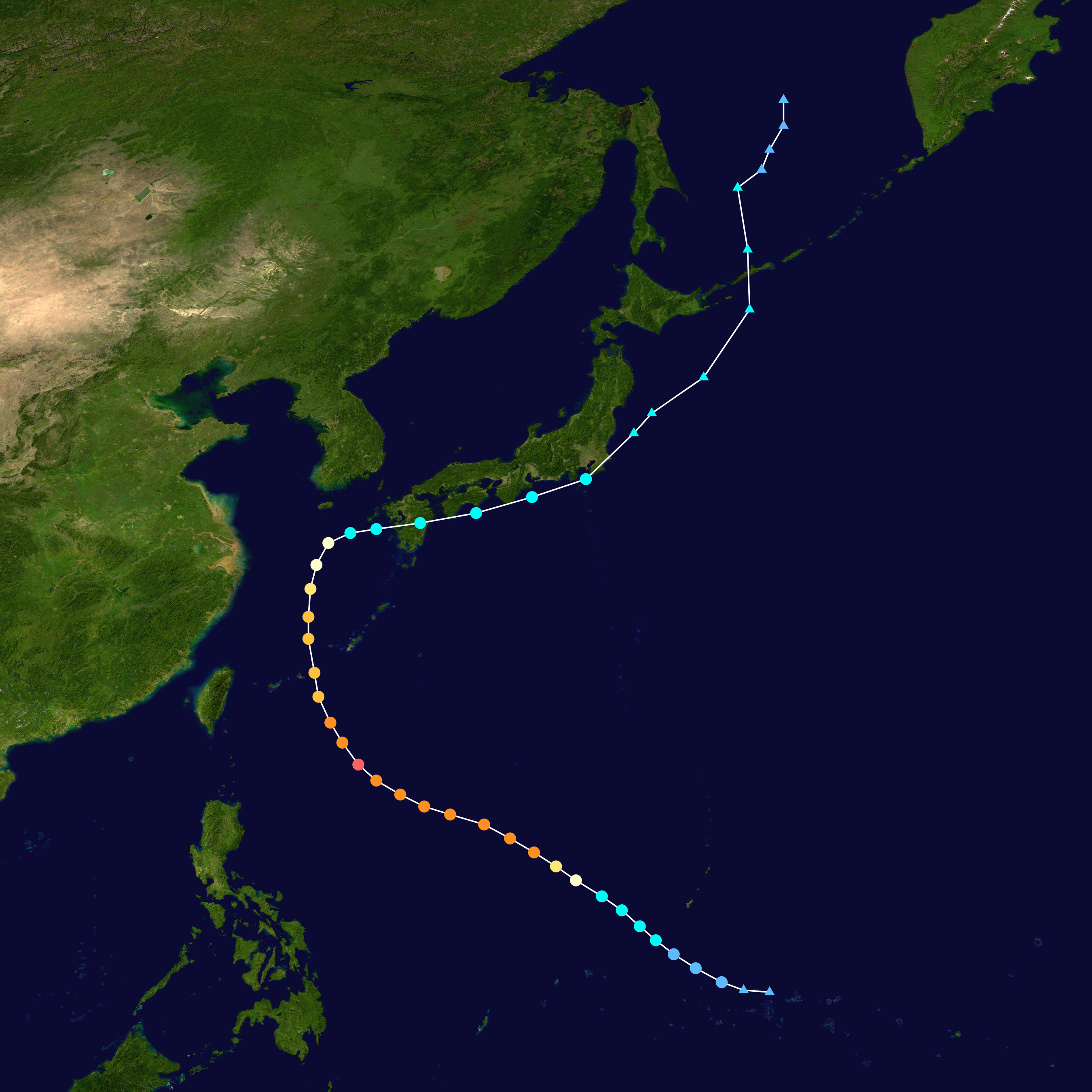 Track map of Typhoon Neoguri of the 2014 Pacific typhoon season. The points show the location of the storm at 6-hour intervals. The colour represents the storm's maximum sustained wind speeds as classified in the Saffir–Simpson scale (see below), and the shape of the data points represent the nature of the storm, according to the legend below. Saffir–Simpson scale Tropical depression≤38 mph≤62 km/h Category 3111–129 mph178–208 km/h Tropical storm39–73 mph63–118 km/h Category 4130–156 mph209–251 km/h Category 174–95 mph119–153 km/h Category 5≥157 mph≥252 km/h Category 296–110 mph154–177 km/h Unknown Storm type Tropical cyclone Subtropical cyclone Extratropical cyclone / Remnant low / Tropical disturbance / Monsoon depression